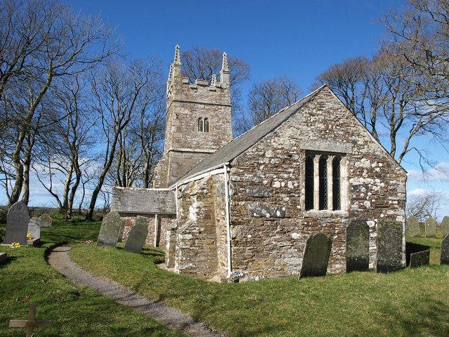 Church of St Winwallo, Tremaine, near to Tremaine, Cornwall, Great Britain. The church, in an isolated position northwest of the hamlet, is part Norman, part C16. Beeches surround the churchyard.